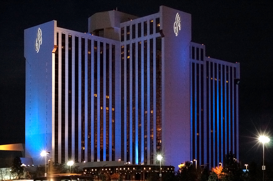 Author